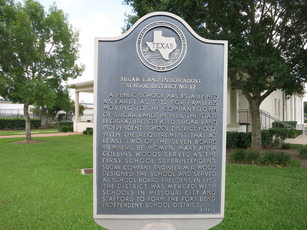 Photo shows a Texas Historical Commission marker for the former Sugar Land School District on the grounds of the Sugar Land Auditorium. It became part of the Fort Bend Independent School District in 1959. View is toward the southeast.